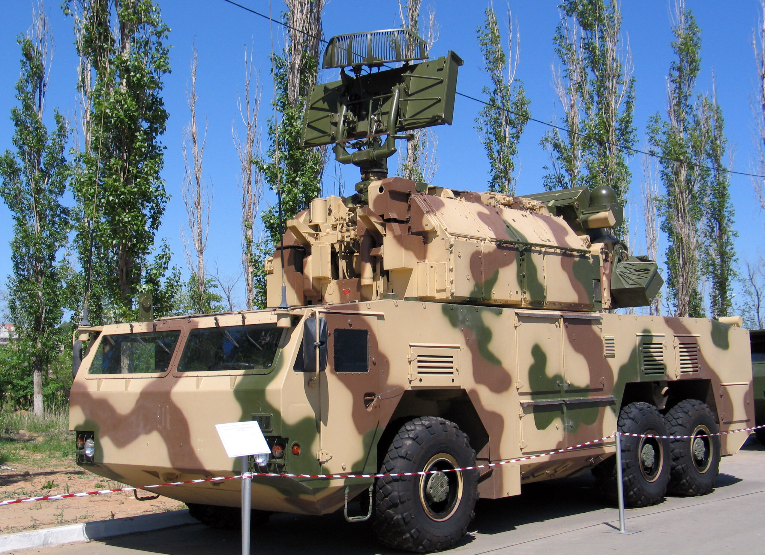 wheeled self-propelled launcher of "Tor-MK" surface-to-air missile system on the military exhibition on the 65 anniversary of Kapustin Yar missile range, Znamensk, Russia.